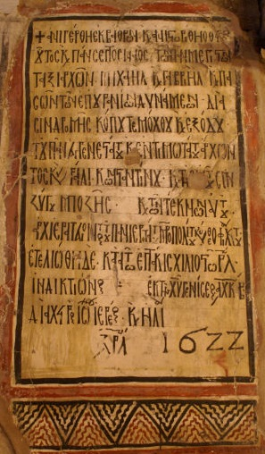 Archangels Church Kastoria Inscription 1622